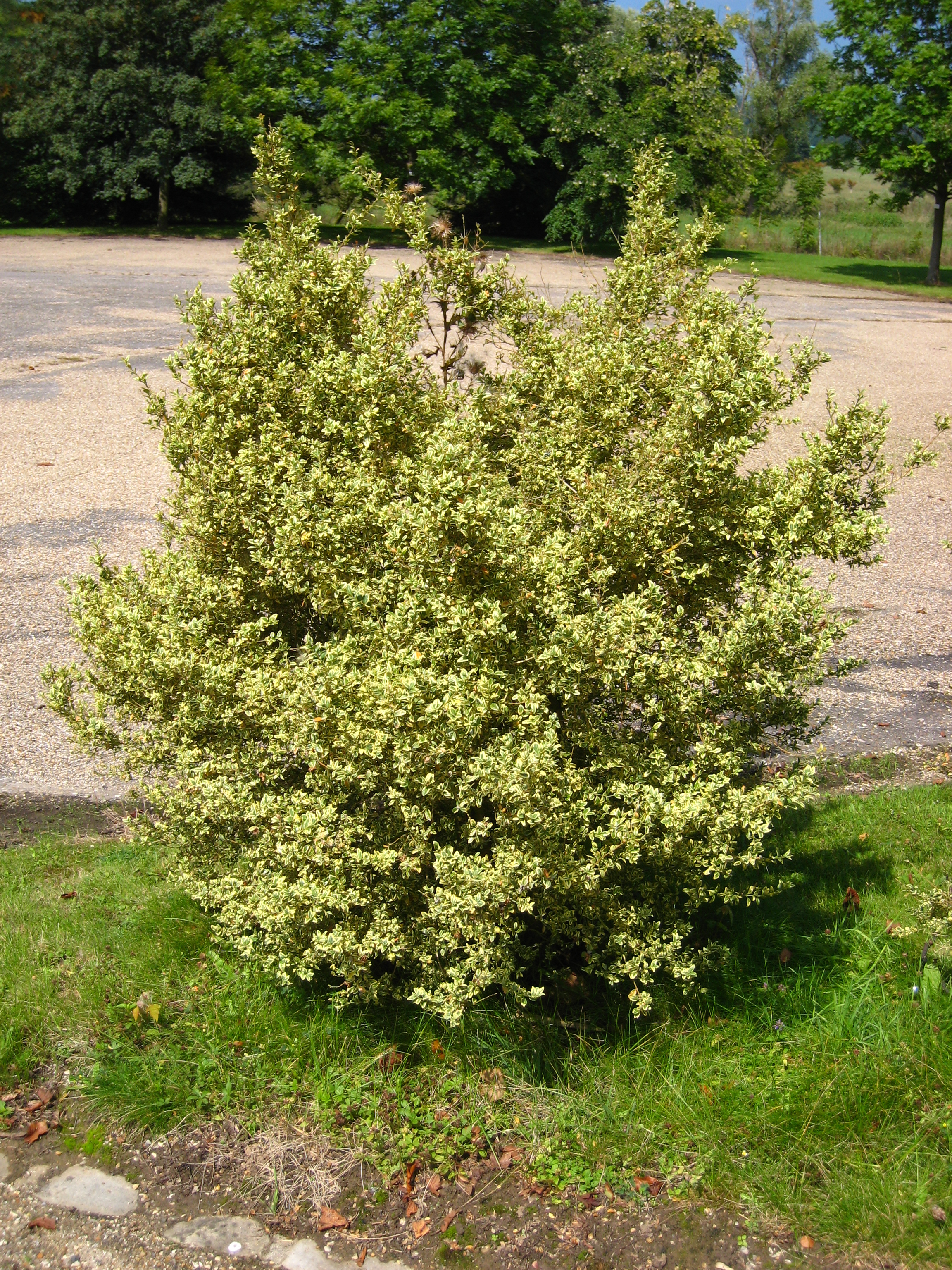 Buxus sempervirens 'argenteovariegata' in the Arboretum de Chèvreloup in Rocquencourt